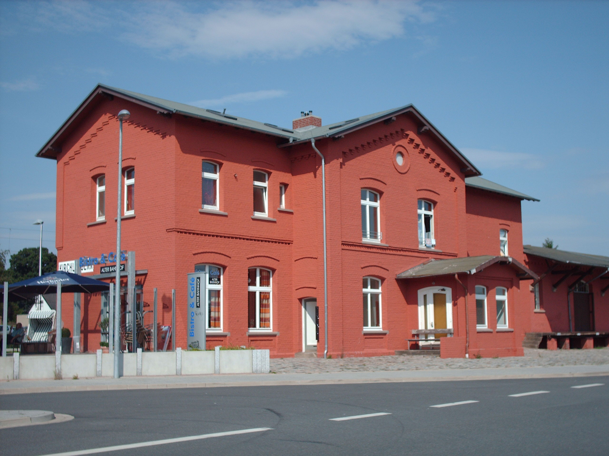 Kirchlengern station, Kirchlengern, Germany check usage